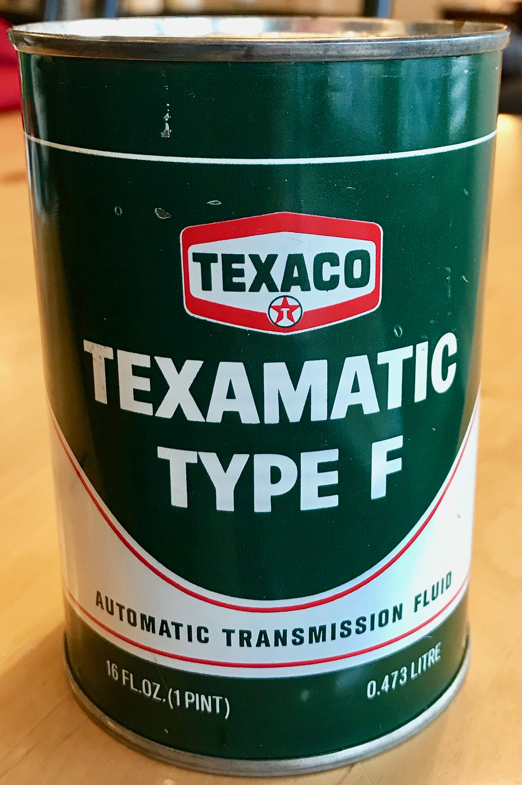 Texaco Texamatic Type F ATF December 1969